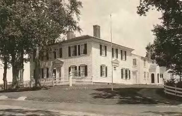 Pierce Homestead, built in 1804, Hillsborough, NH; from a c. 1922 postcard.